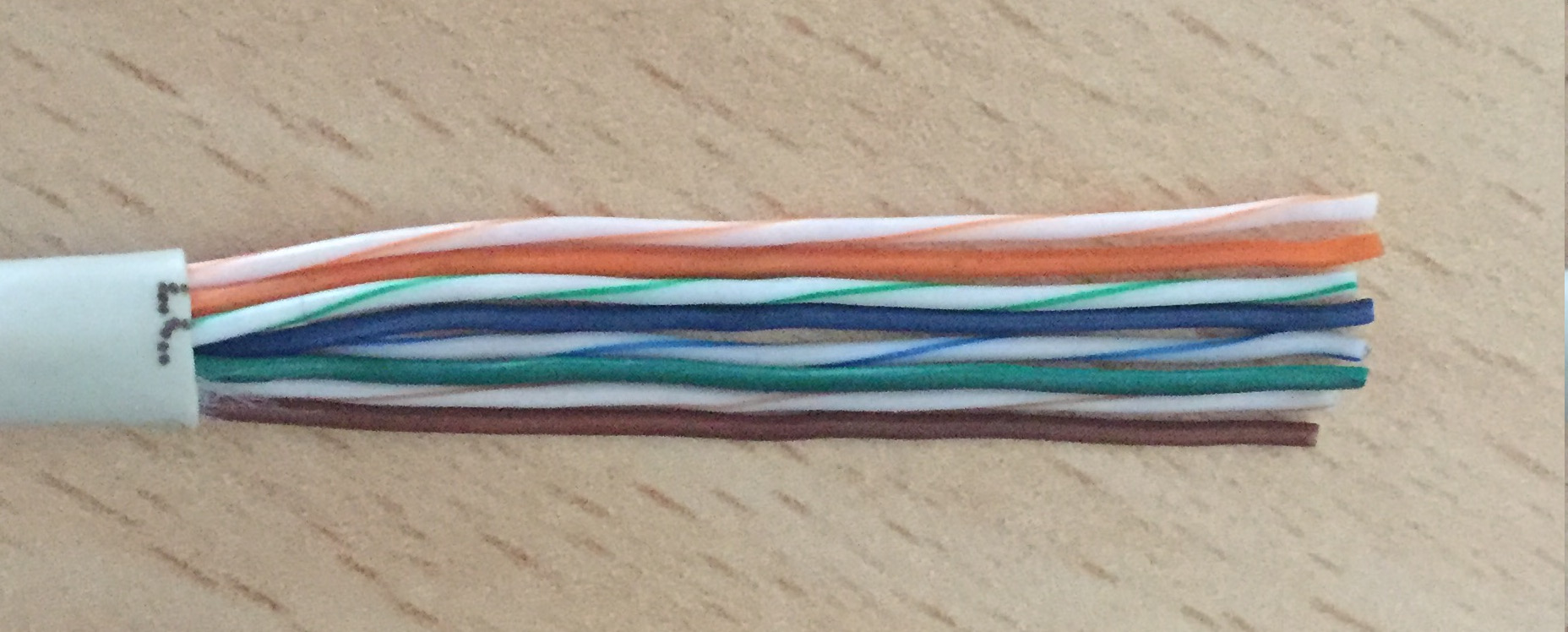 Do it yourself. Make UTP (Unshielded Twisted Pair) and connect RJ45 connector. Step 5: put cables in correct sequence.